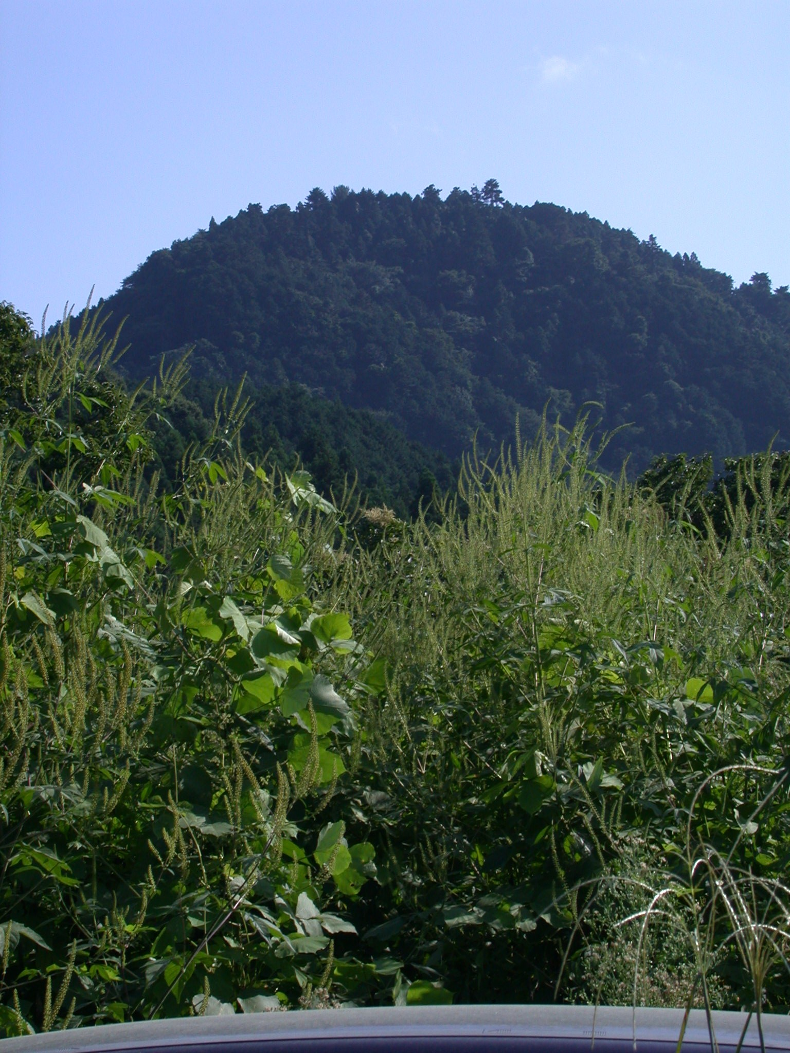 Hachioji Castle(back side)